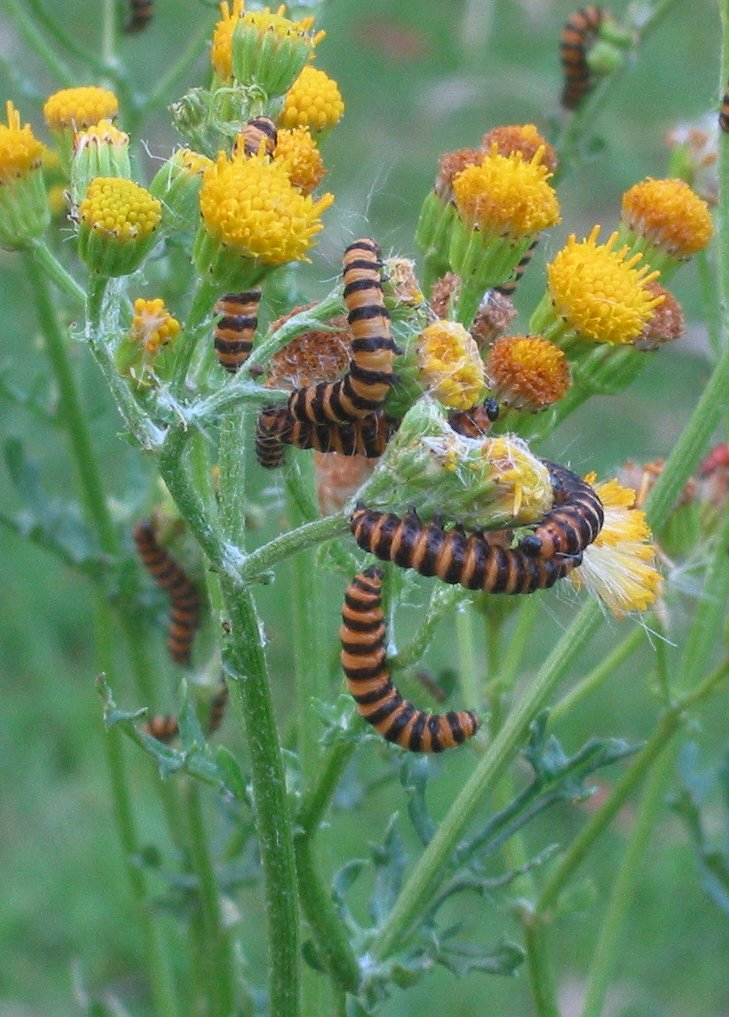 Cinnabar moth (Tyria jacobaeae) caterpillar feeding on a Senecio jacobaea.